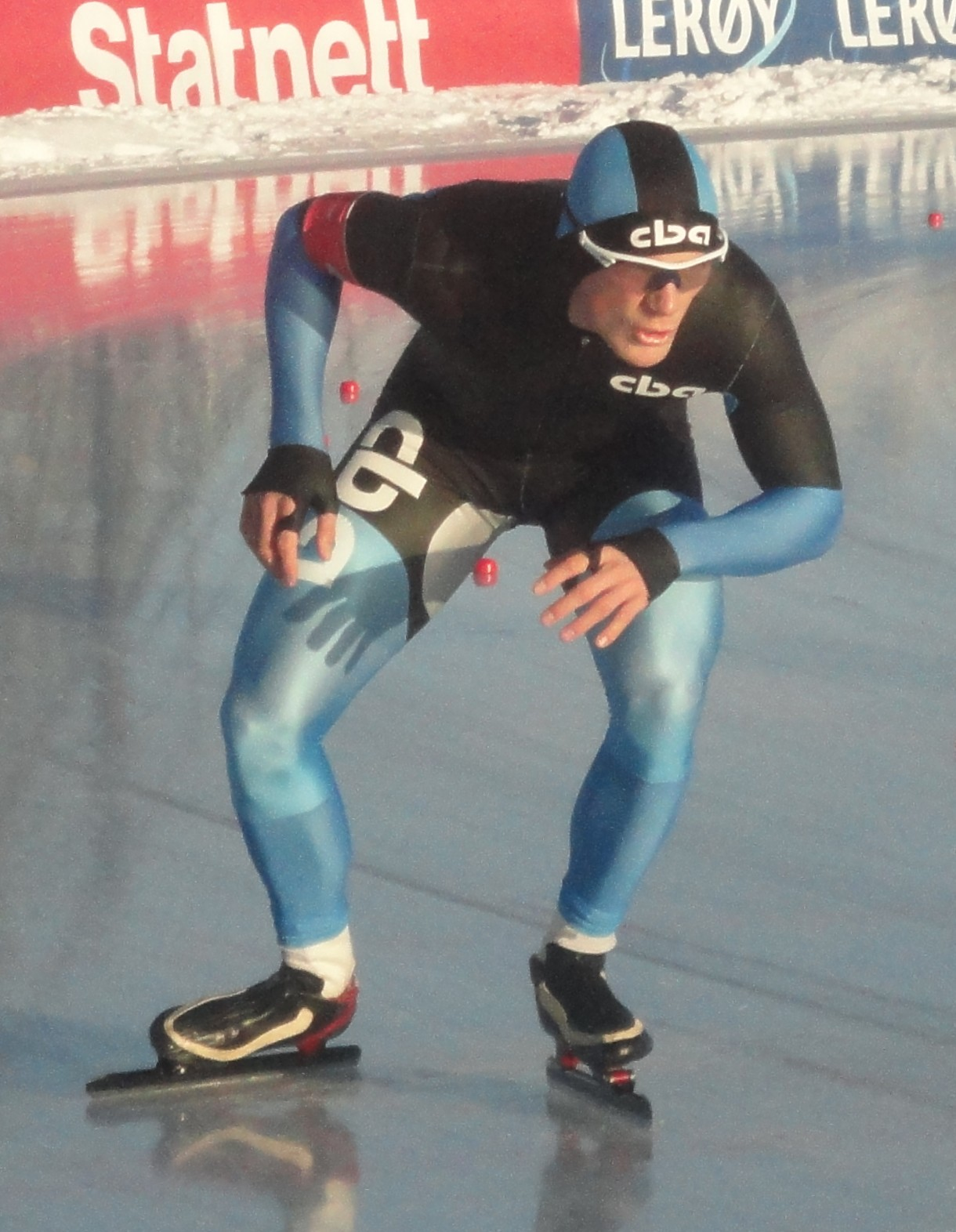 Fredrik van der Horst ready for start at 500m sunday 8. jan 2012 during the National Sprint Championship in speedskating 2012 in Asker, Norway.